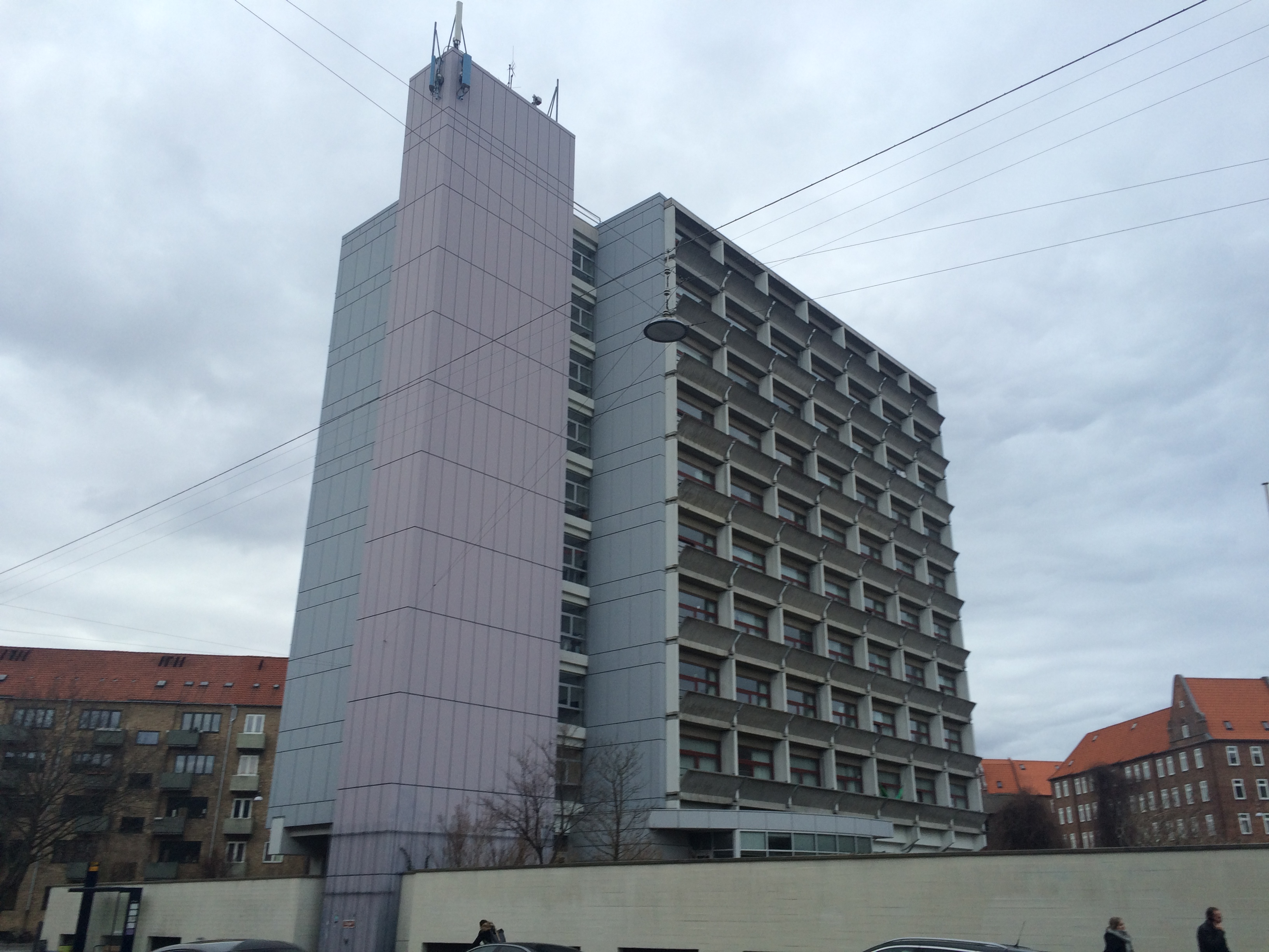 Frankrigsgade Kollegiet in 2018